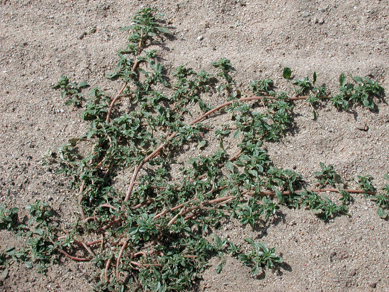 Amaranthus albus L., Prostrate Pigweed. Growing in desert wash, eastern Maricopa County, Arizona, USA. syn: A. graecizans L.